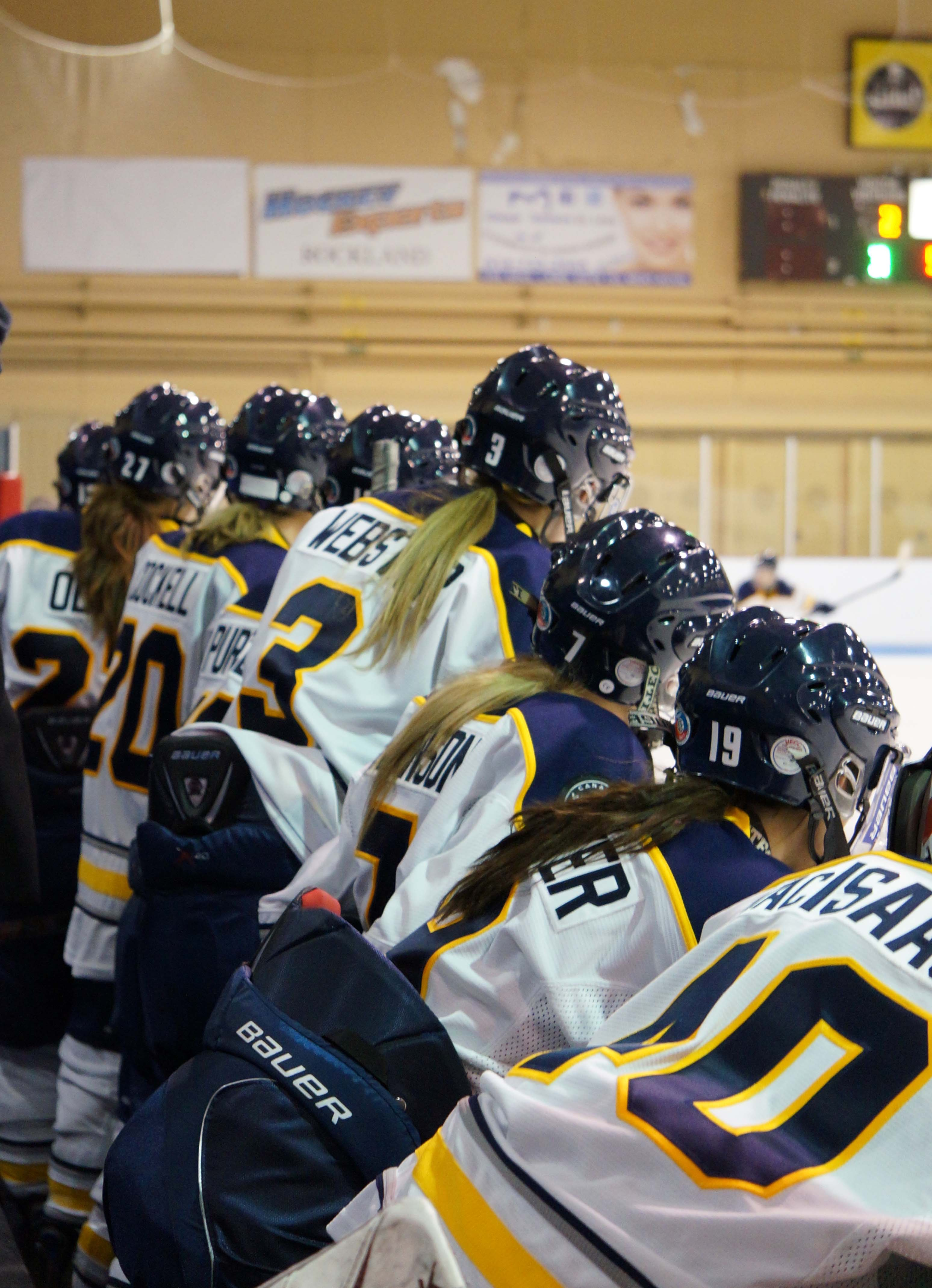 Team Alberta, women's ice hockey